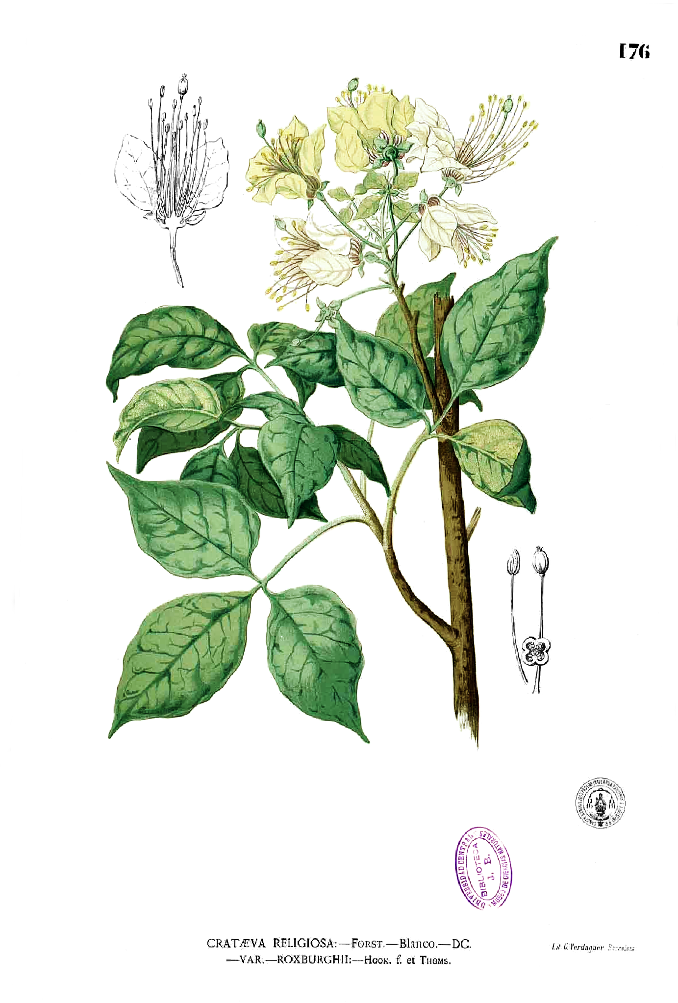 Plate from book